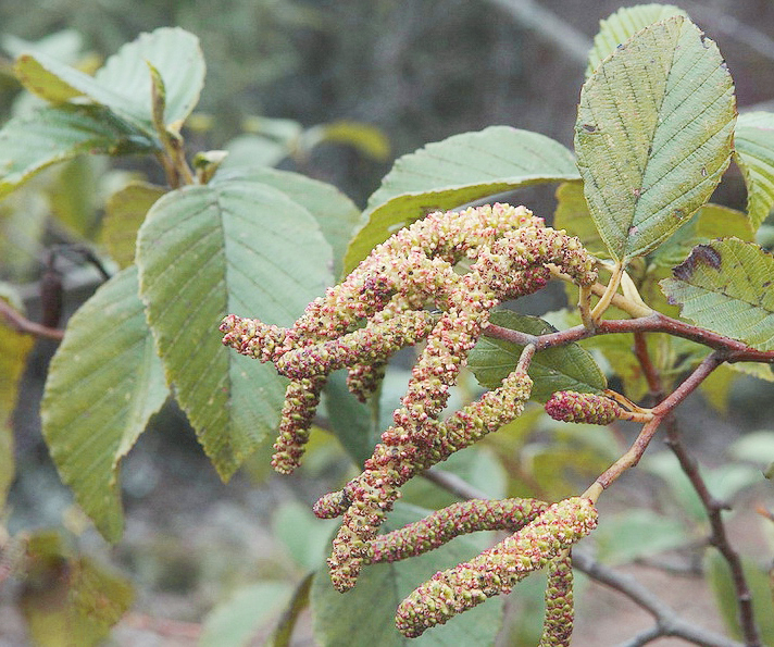 Alnus acuminata